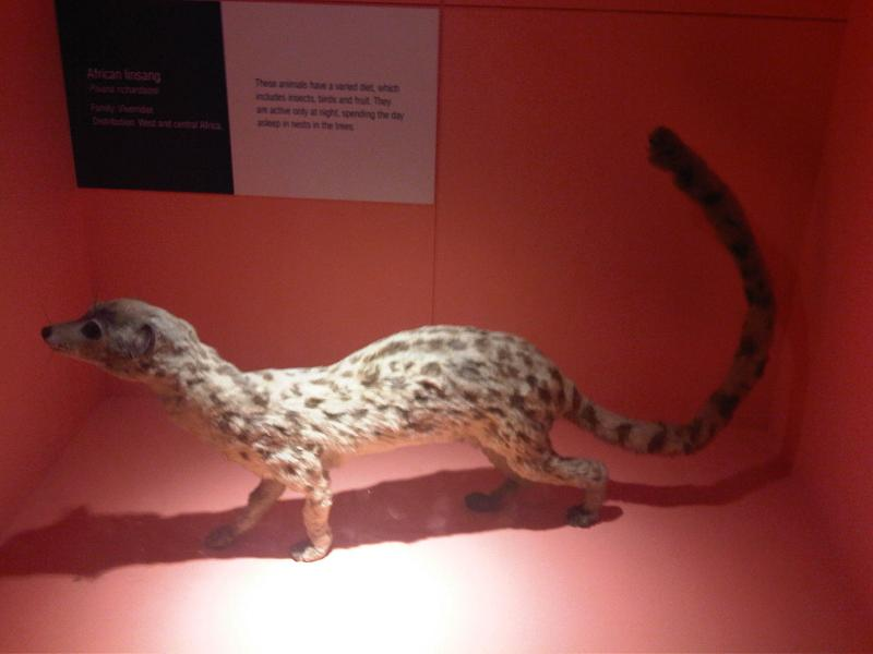 Taxidermied African Linsang (Poiana richardsonii) at the Natural History Museum in London, England.